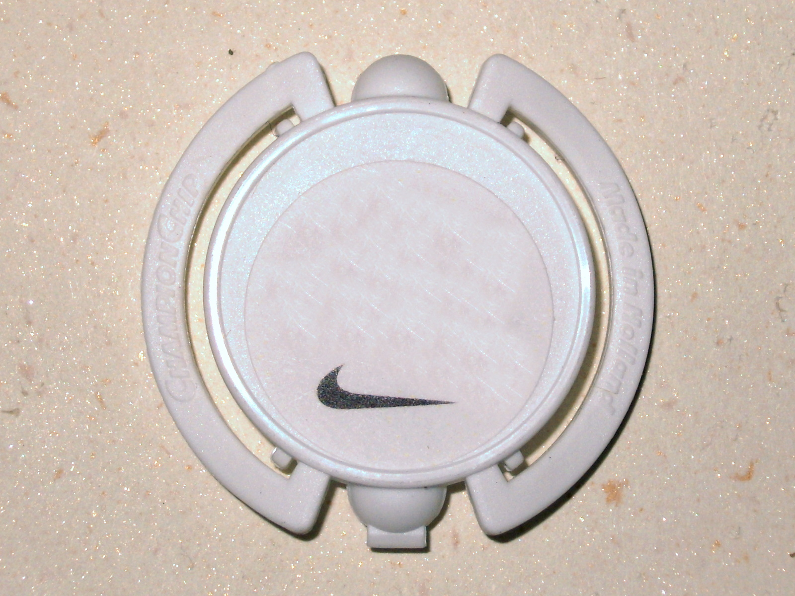 Nike+ Human Race 2008 in Taipei, Taiwan: The ChampionChip.